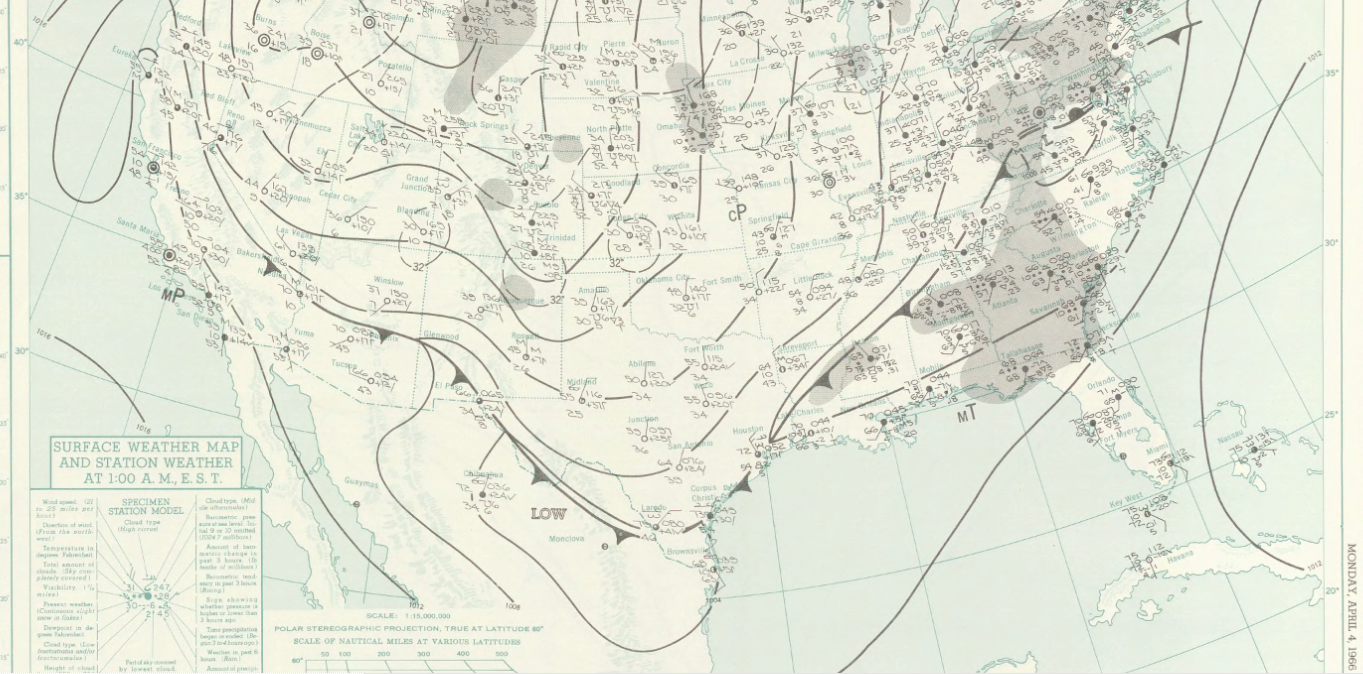 Surface weather analysis on the morning of April 4, 1966, prior to the 1966 Central Florida tornado outbreak